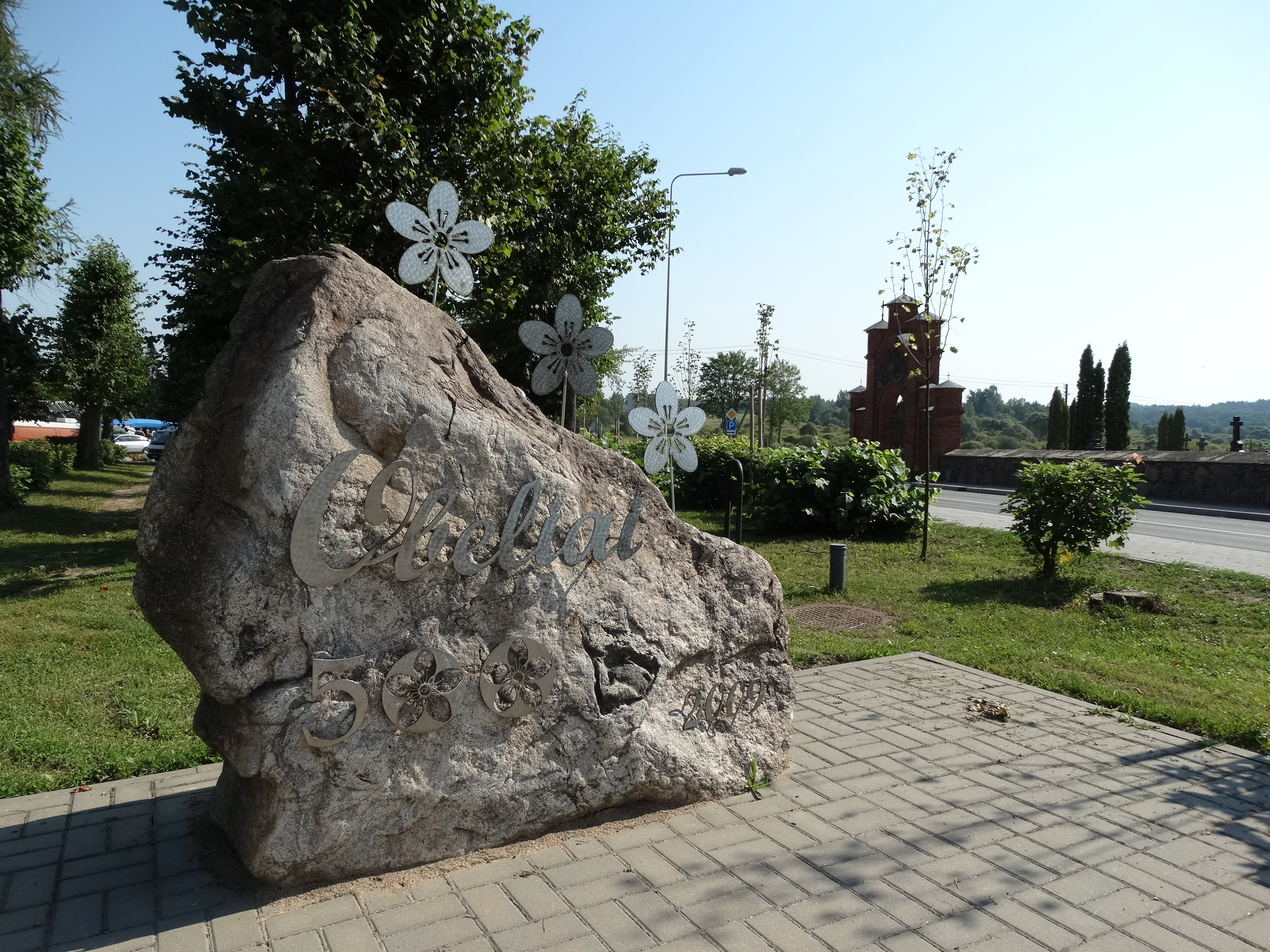 Stone in Obeliai, Rokiškis district, Lithuania